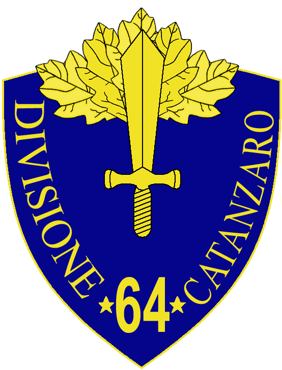 64a Divisione Fanteria Catanzaro insignia, Regio Esercito, Italy, WWII